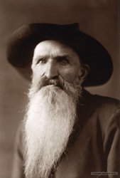 Historical photograph of George Pingree, founder of Pingree Park, CO. The copyright on this image is valid as the copyright holder died more than 100 years ago.